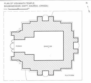 Plan of VisvanathSivatemple